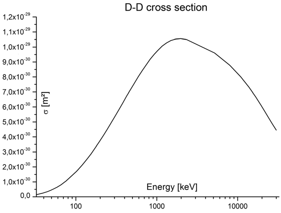 This is the deuterium deuterium fusion cross section (in cubic meters) at different ion collision energies (in 1000s of electron volts). It is taken from "Coupling of transit time instabilities in electrostatic confinement fusion devices" by Gruenwald and Fröhlich, Physics of Plasma, 2015 but is not an exact copy. Other information This is the deuterium deuterium fusion cross section (in cubic meters) at different ion collision energies (in 1000s of electron volts). It is taken from "Coupling of transit time instabilities in electrostatic confinement fusion devices" by Gruenwald and Fröhlich, Physics of Plasma, 2015 but is not an exact copy.